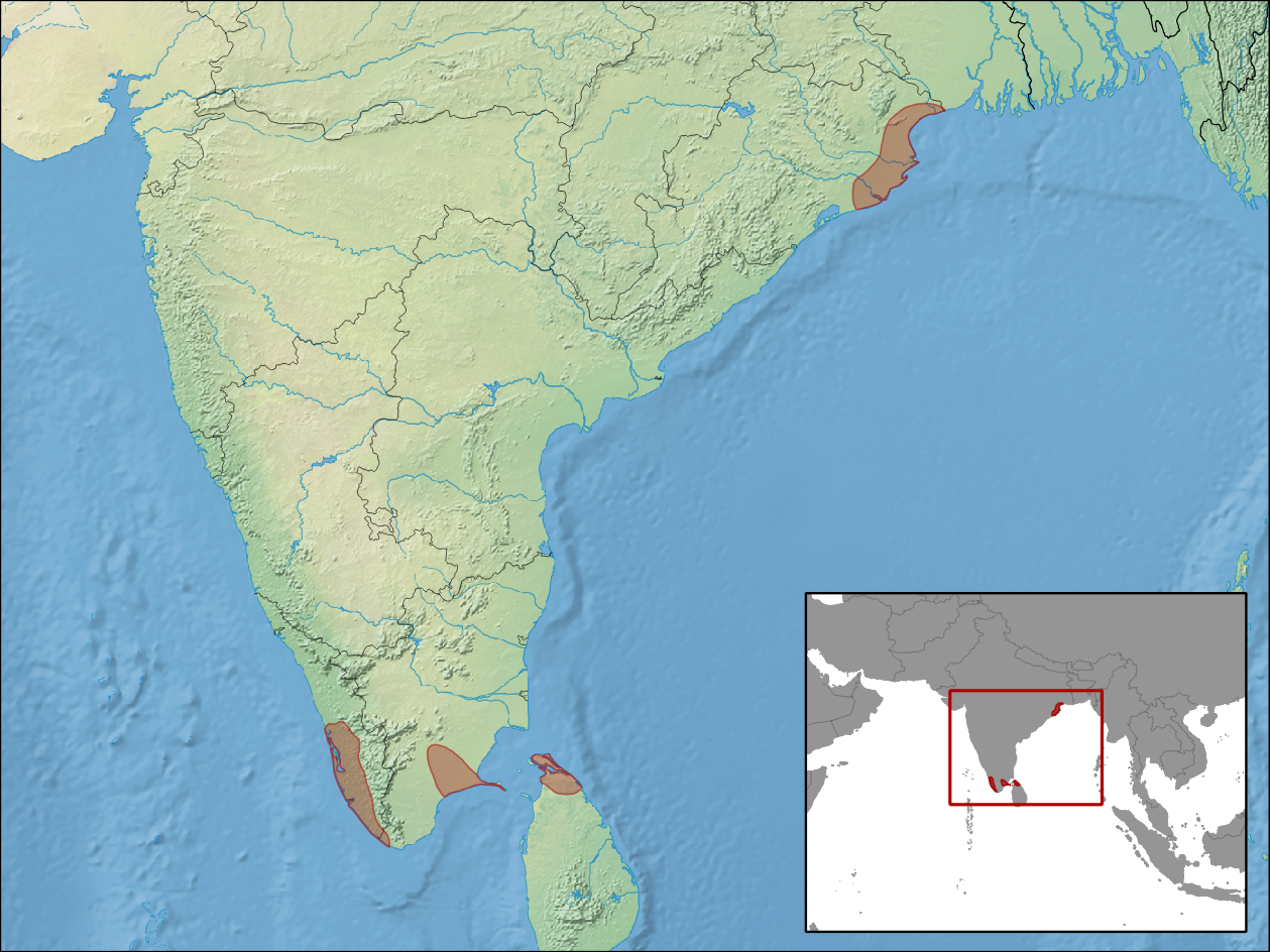 geographic distribution of Eutropis bibronii